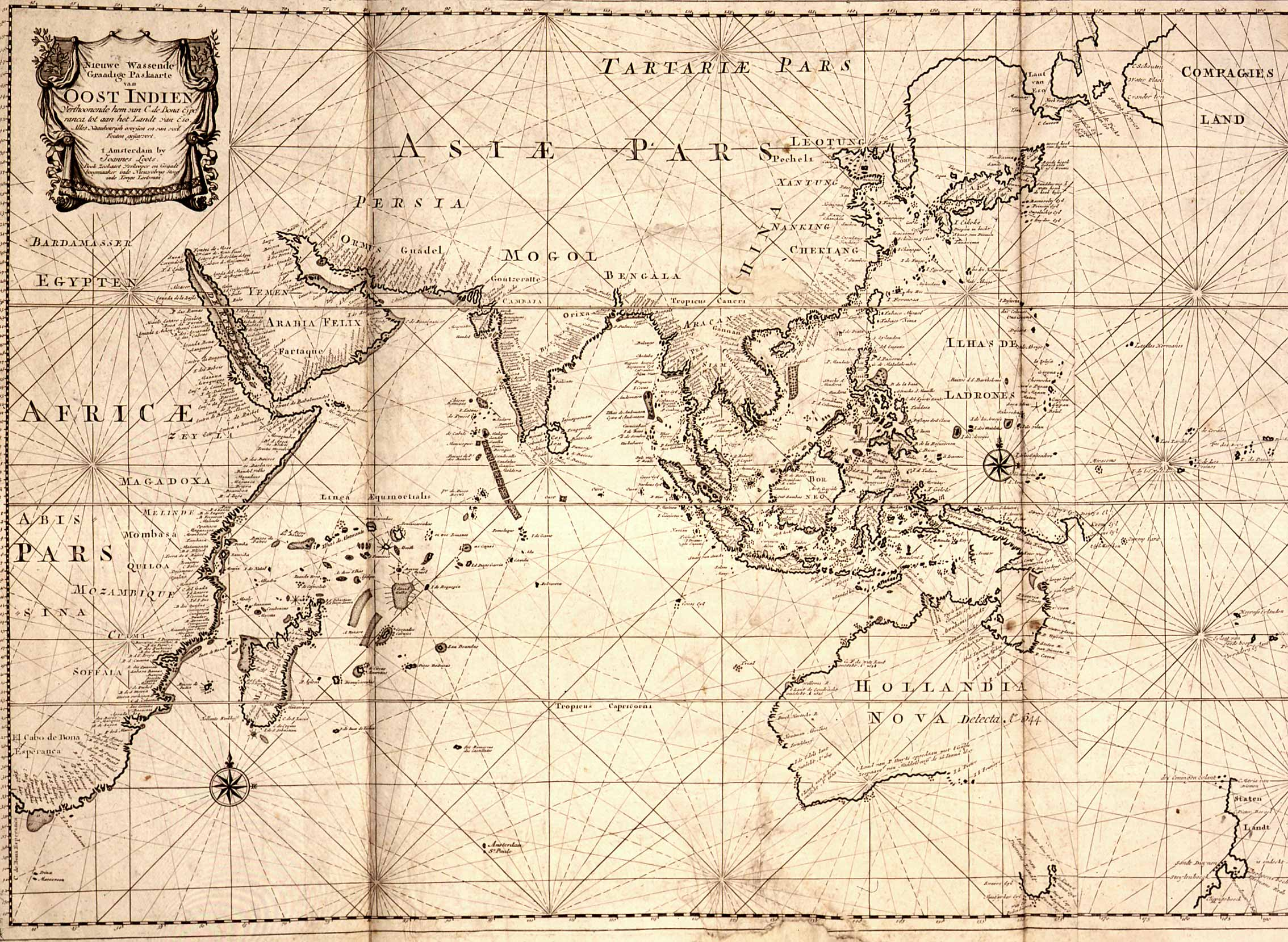 Map of the East Indies; the official trade zone (octrooigebied) of the VOC according to the VOC Charter, which was between Cape of Good Hope (South Africa) and Street Magallan (South America); printed c. 1700.